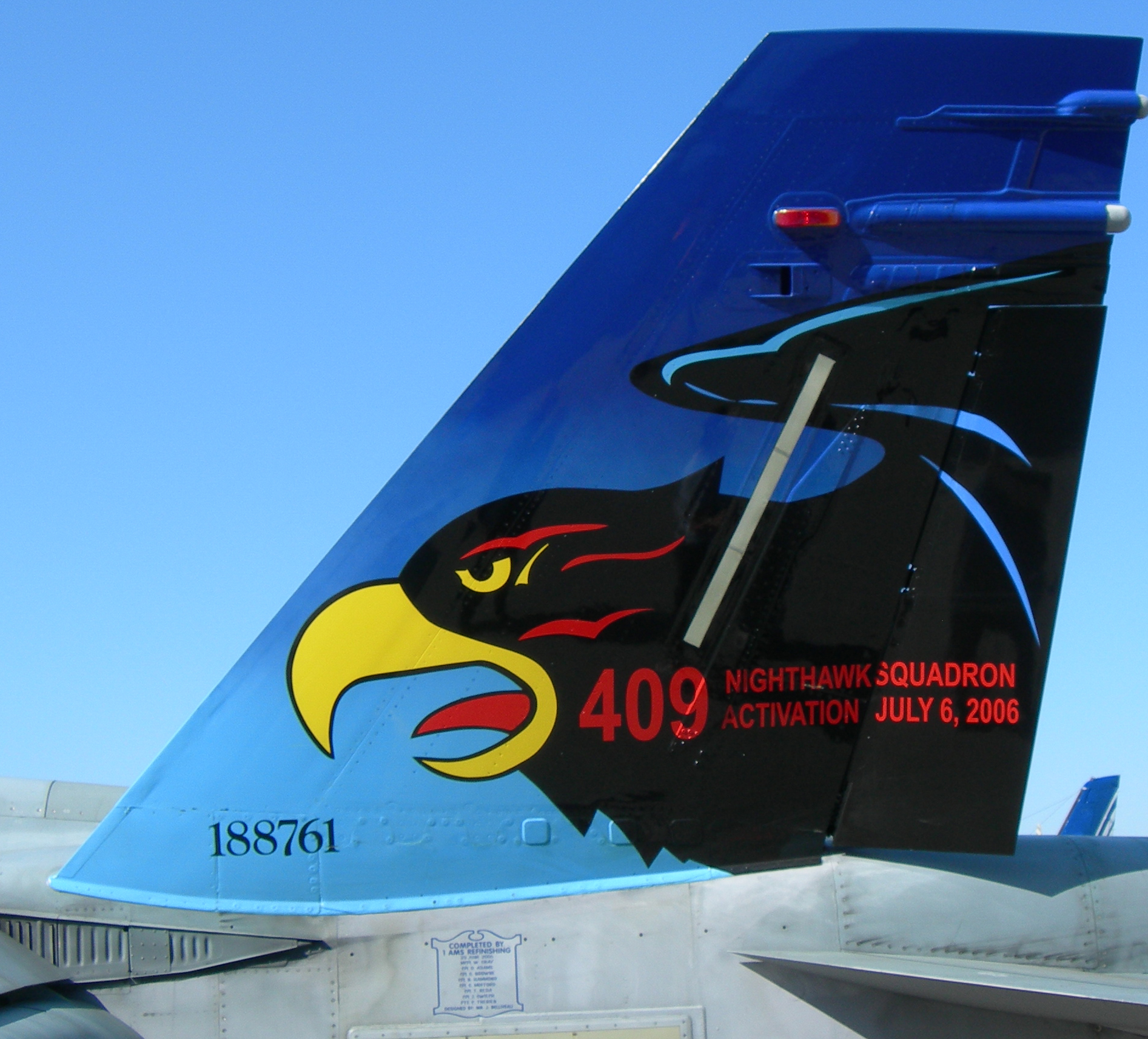 Canadian Forces F-18 tail at Aviation Days, Calgary Aerospace Museum, Calgary, AB.